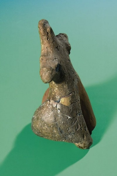 Venus from Lúdvár, found in Gyálarét, Hungary